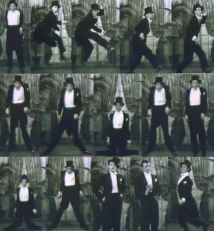 Leo Fuchs in 1937